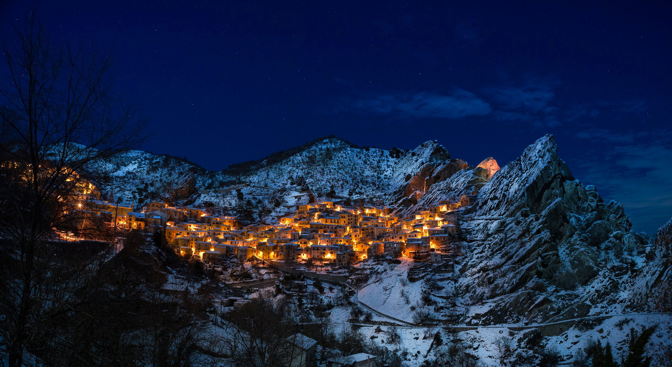 Night view of Castelmezzano after a snowfall This is a photo of a monument which is part of cultural heritage of Italy.